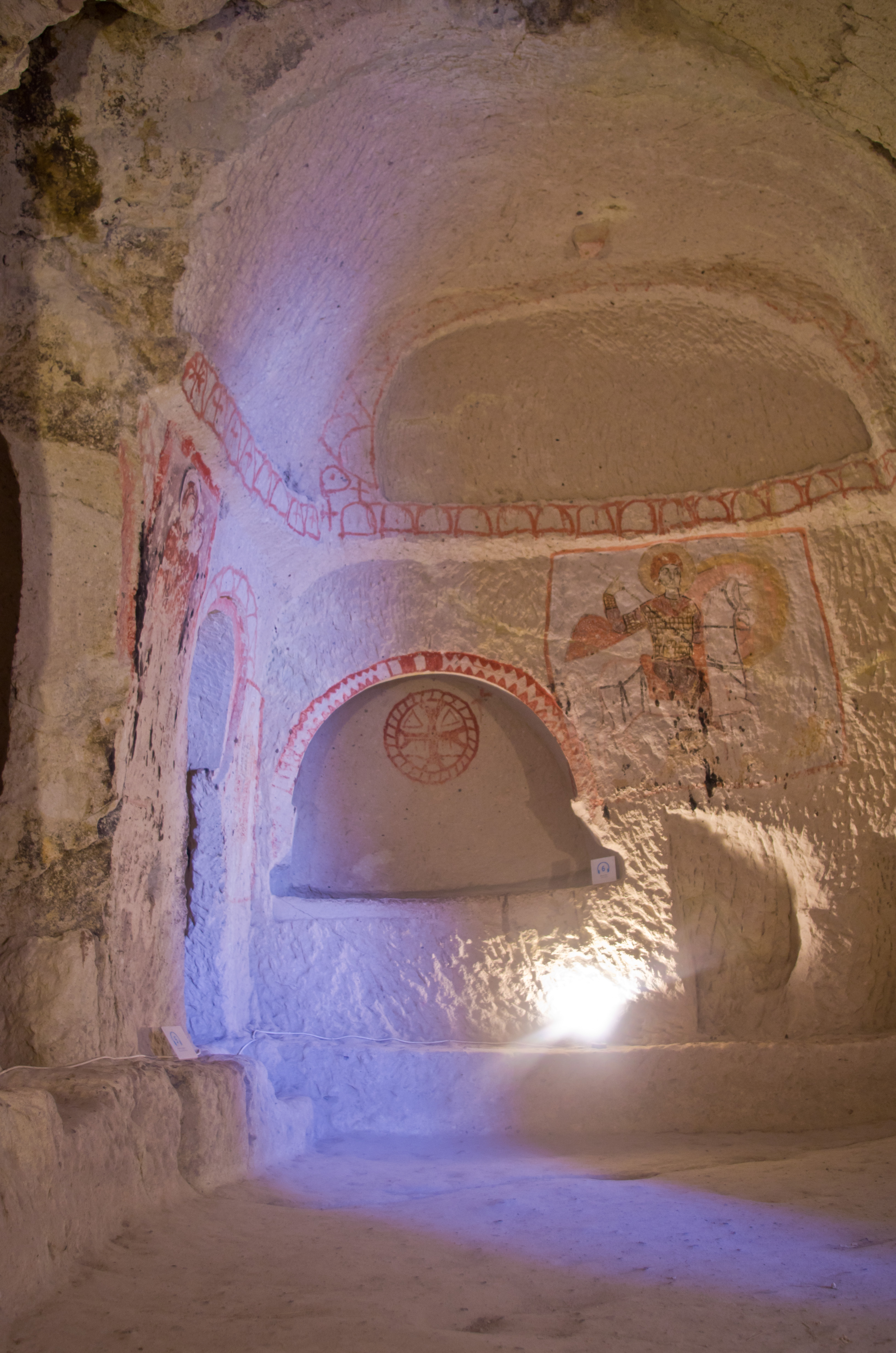 Cave Churches in Göreme